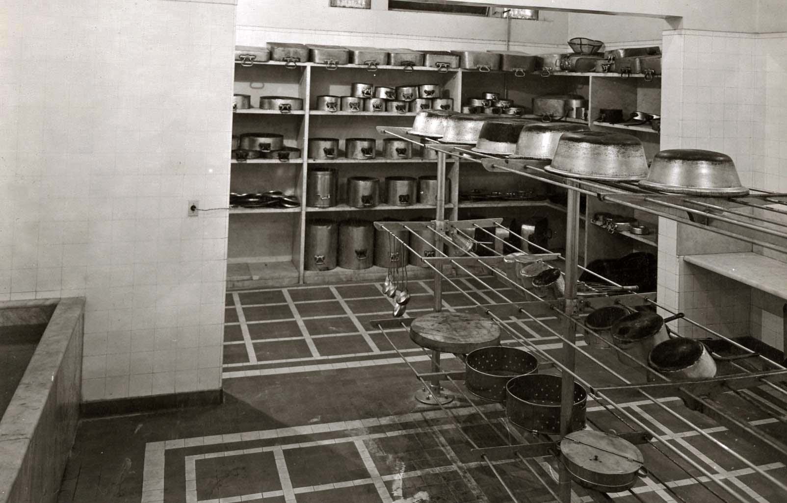 The royal kitchens inside Abdeen Palace.